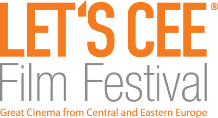 LET'S CEE Film Festival logo